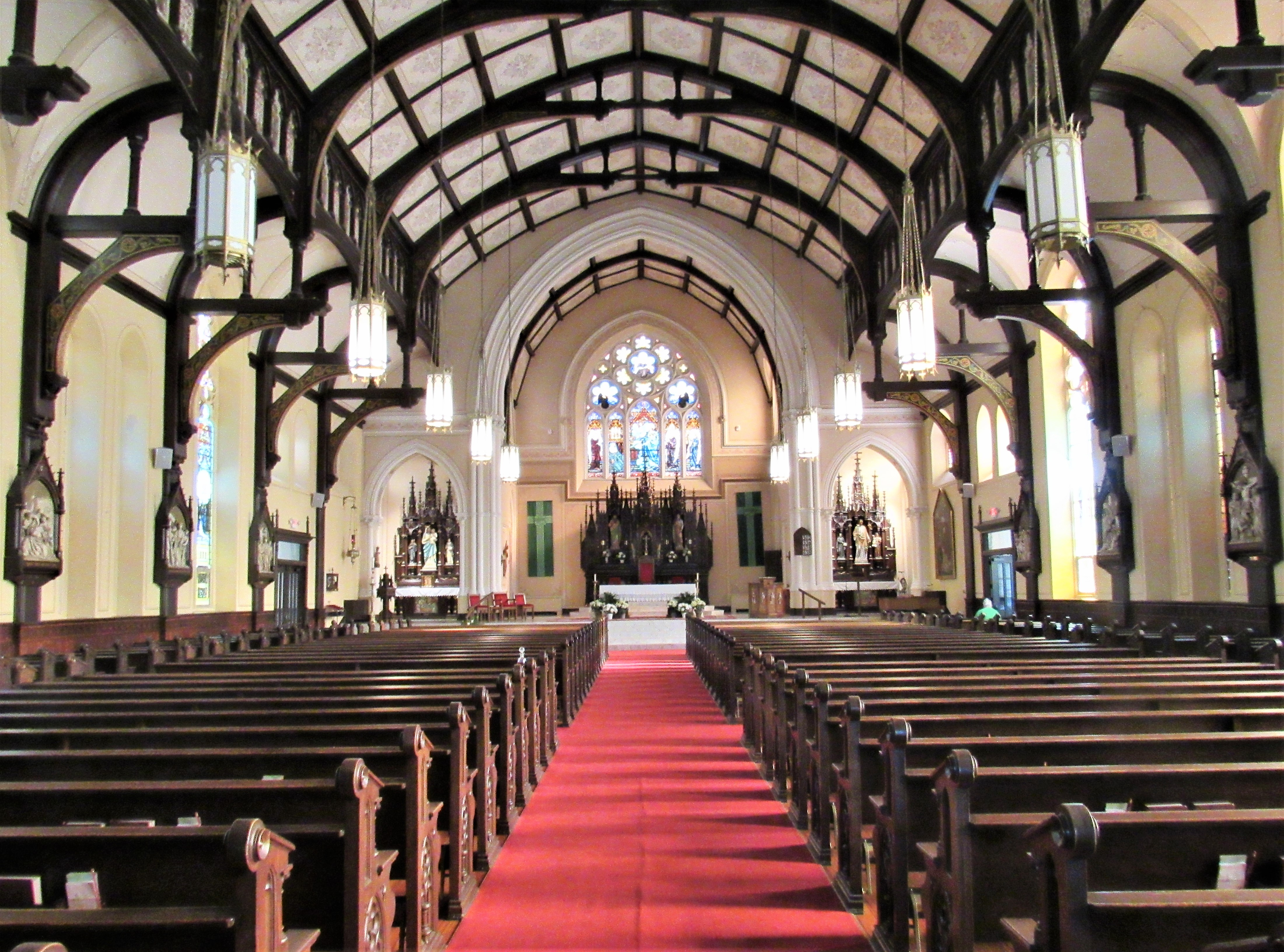 The interior of Sacred Heart Cathedral in Davenport, Iowa.